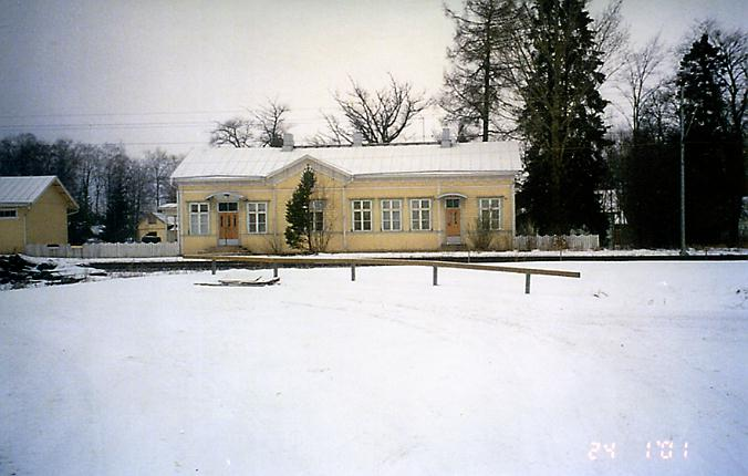 Mellilä railway station on Turku–Toijala railway line in Mellilä (now part of Loimaa), Finland